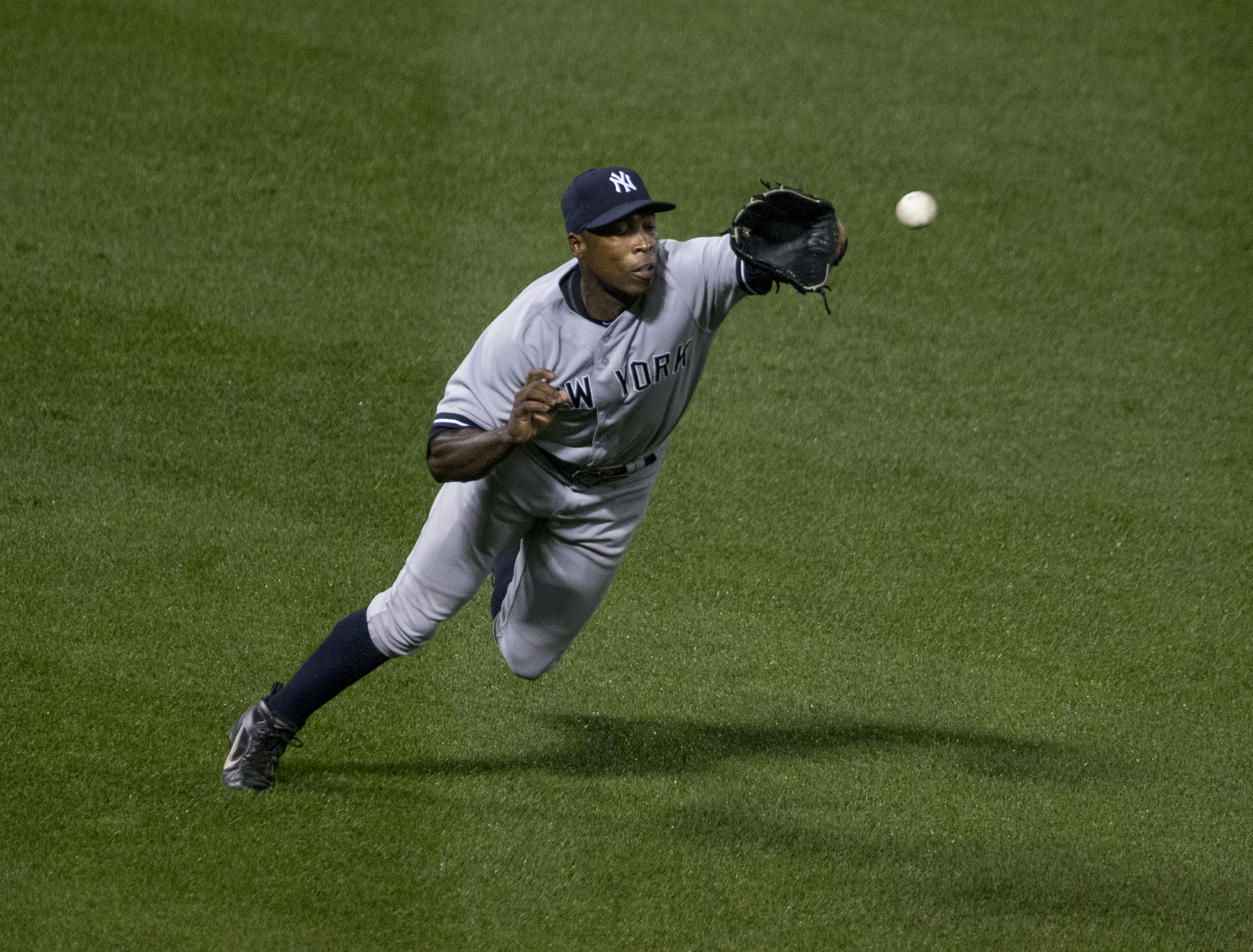 Alfonso Soriano - Yankees at Orioles 09/12/13